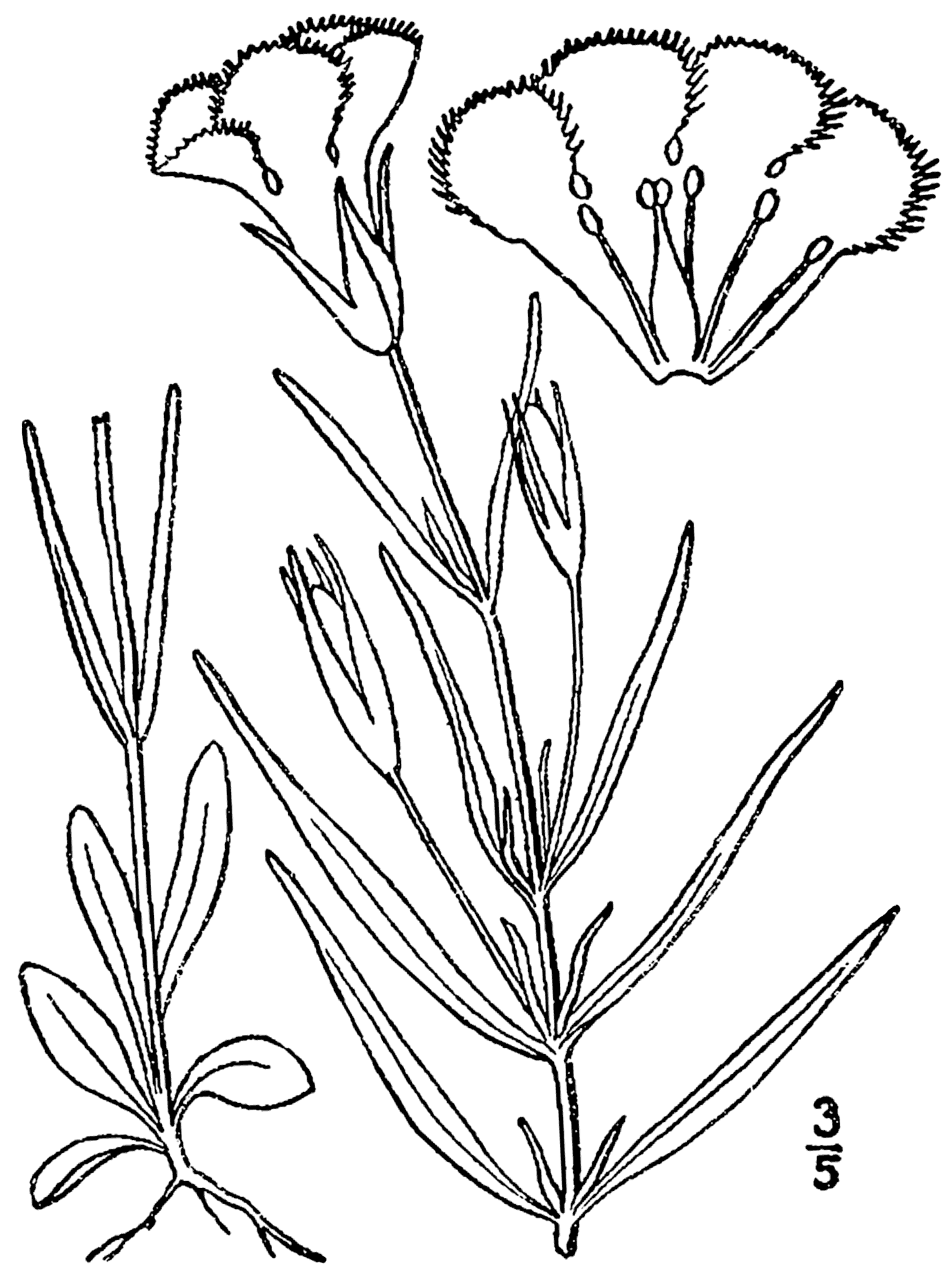 Gentianopsis virgata (Raf.) Holub - lesser fringed gentian